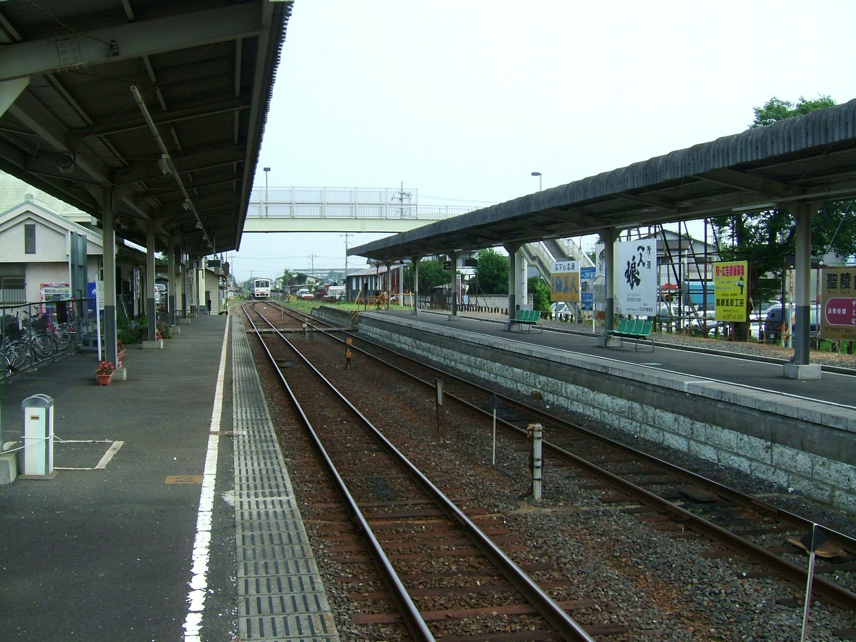 Ishige Station platform (Kanto Railway Jōsō Line)